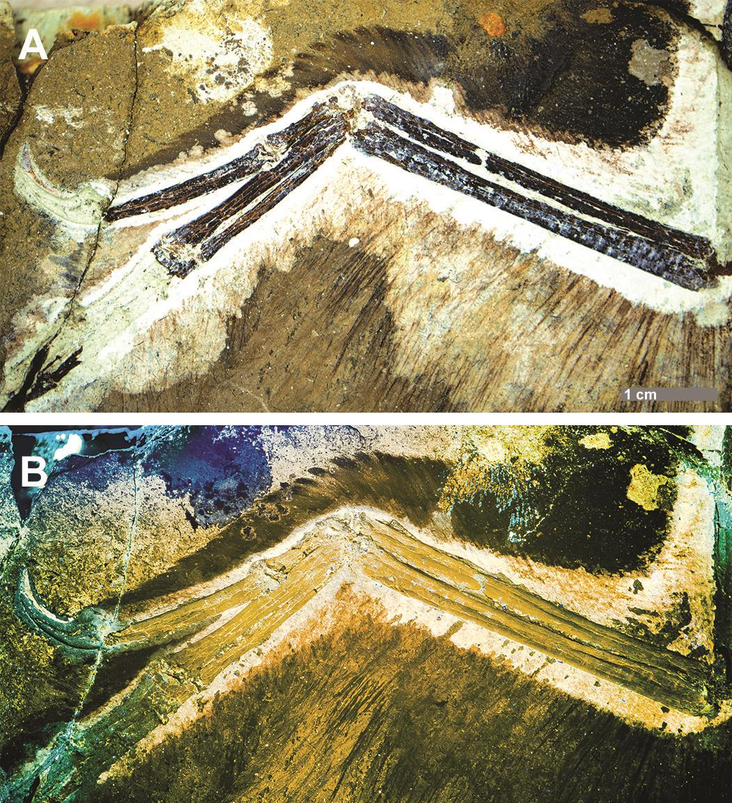 Fossil wing from the Anchiornis huxleyi specimen STM-0-144.